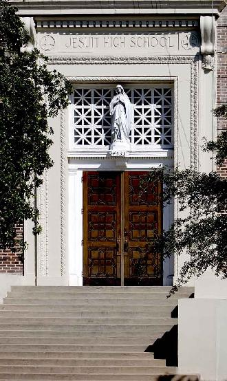 Front doors of Jesuit High School.